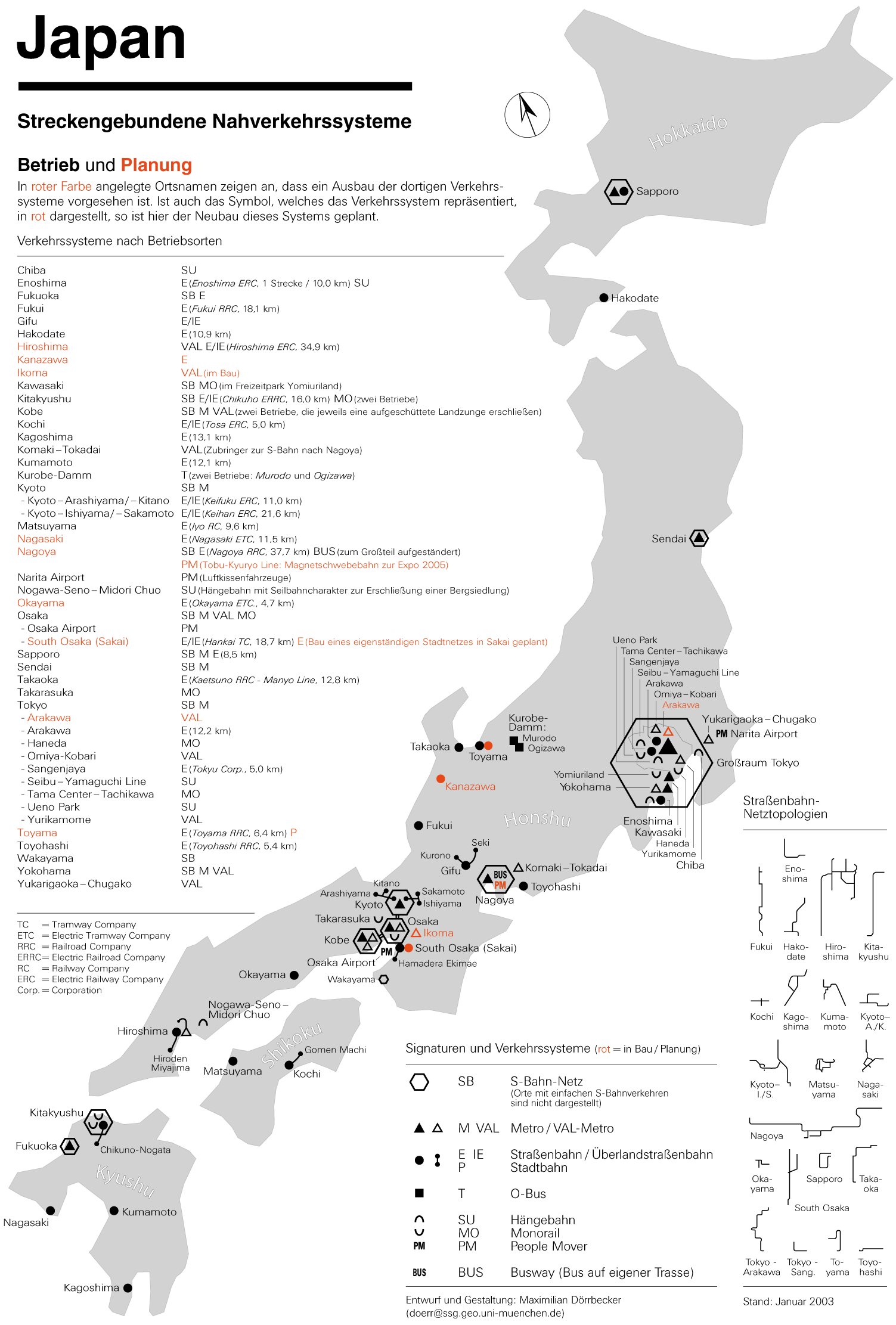 Map of fixed-route public transport systems (suburban railways, Rapid Transit and Light Rail Transit systems, tram, trolleybus) in Japan (January 2003)